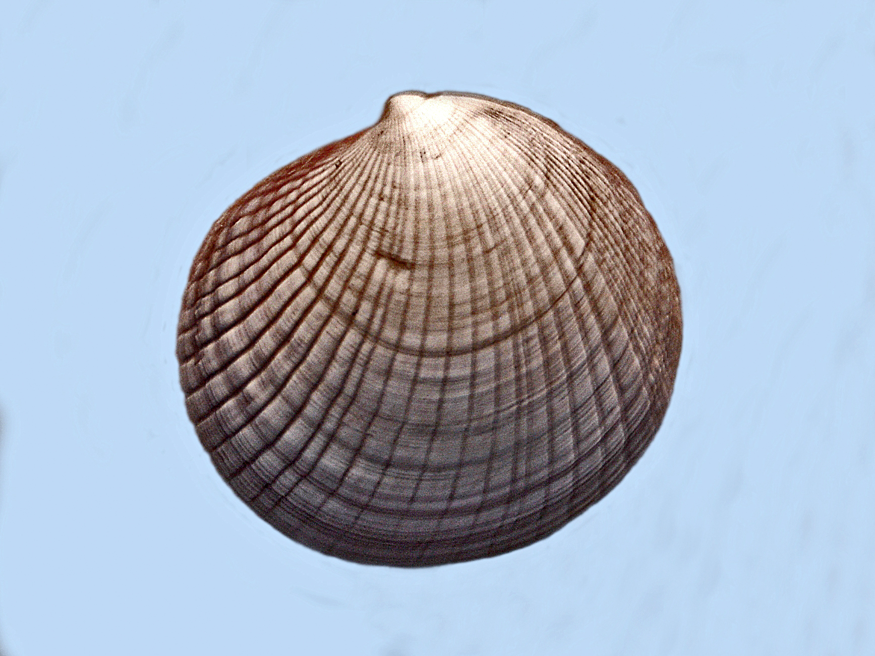 Valve of Codakia punctata on display at the Museo Civico di Storia Naturale di Milano